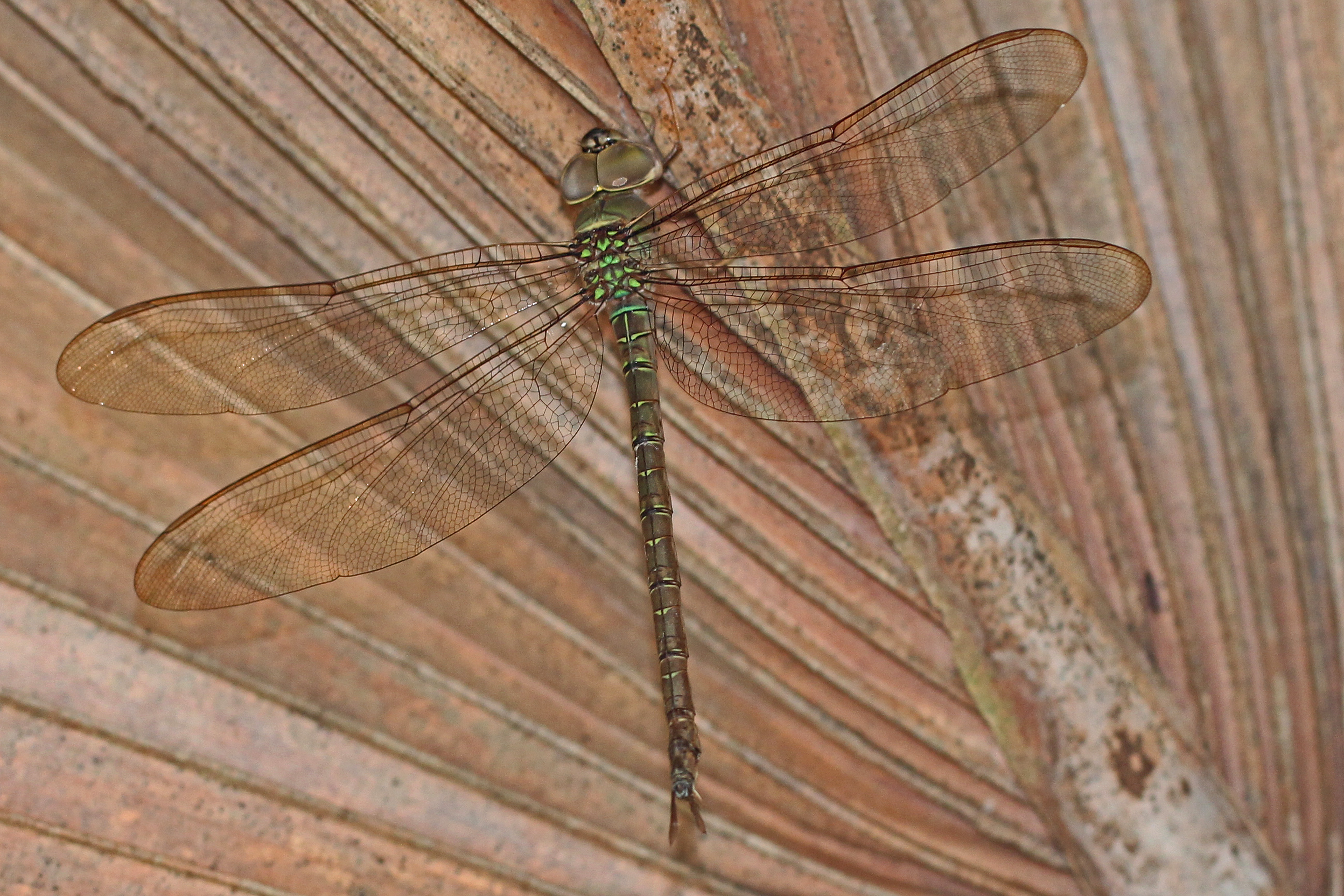 Twilight Darner - Gynacantha nervosa, Florida Panther National Wildlife Refuge, Collier County, Florida